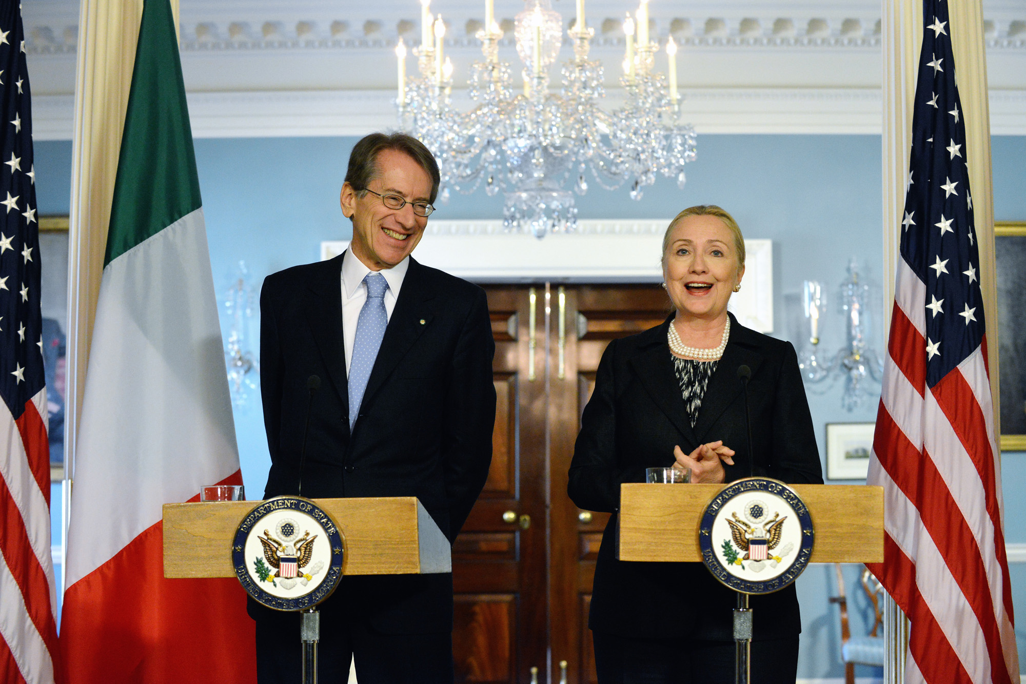 U.S. Secretary of State Hillary Rodham Clinton and Italian Foreign Minister Giulio Terzi di Sant'Agata address reporters after their bilateral meeting at the U.S. Department of State in Washington, D.C., October 12, 2012. [State Department photo/ Public Domain]